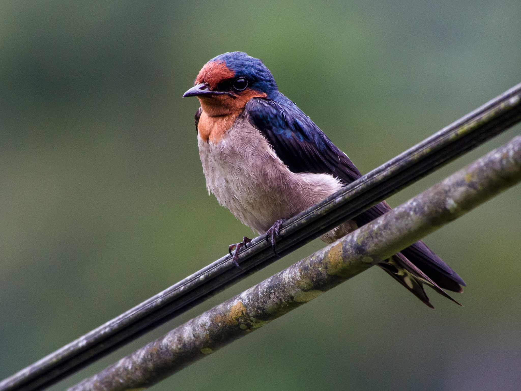 Pacific Swallow